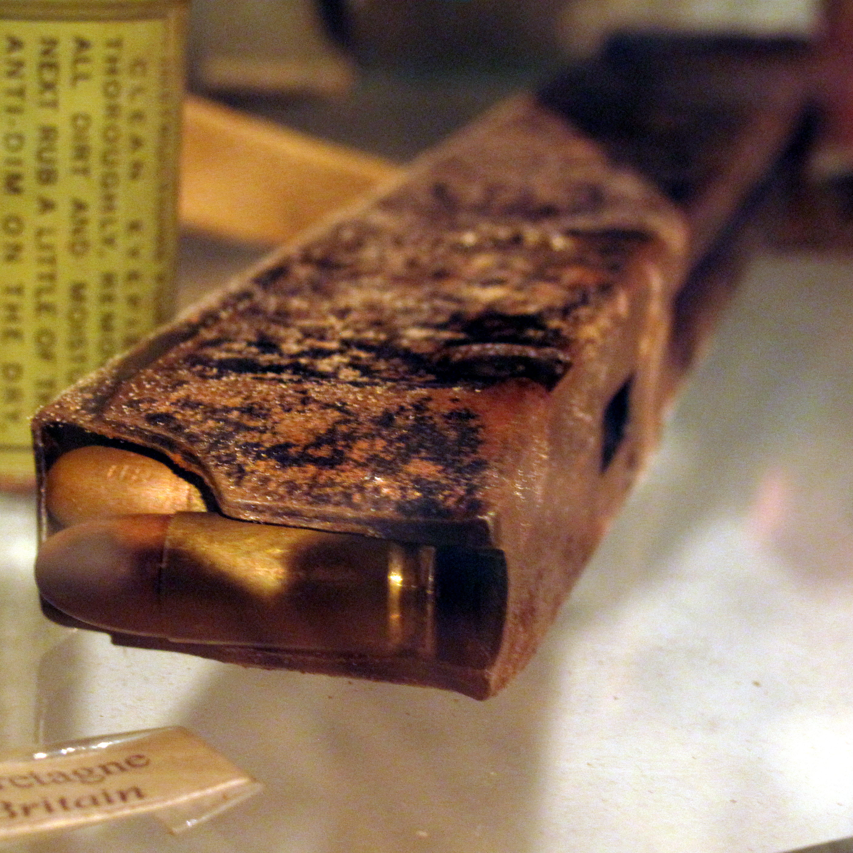 Magazine of a Sten submachine gun